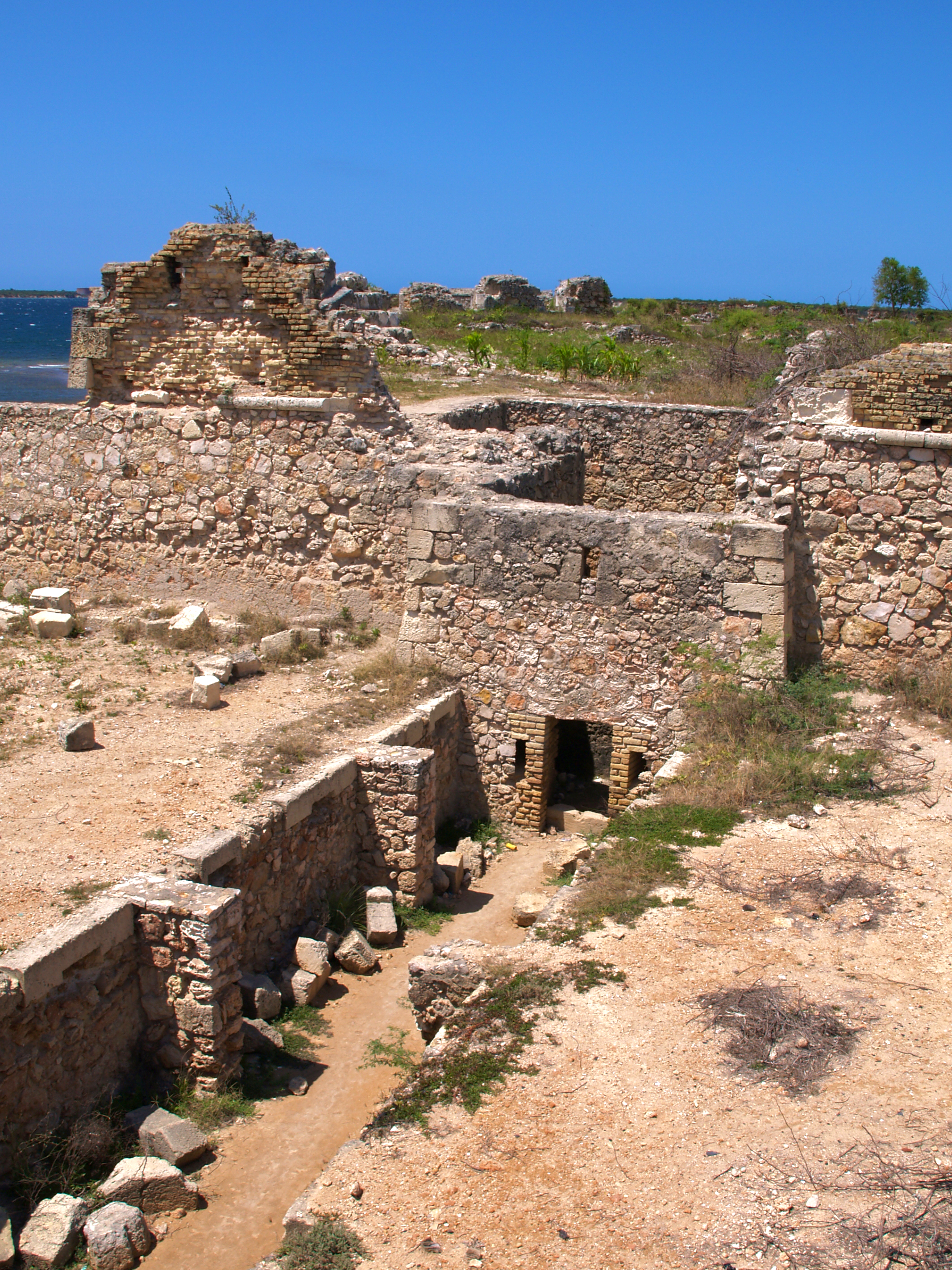 Fort Saint Joseph - Fort Liberte, Haiti (Narrow entryway)